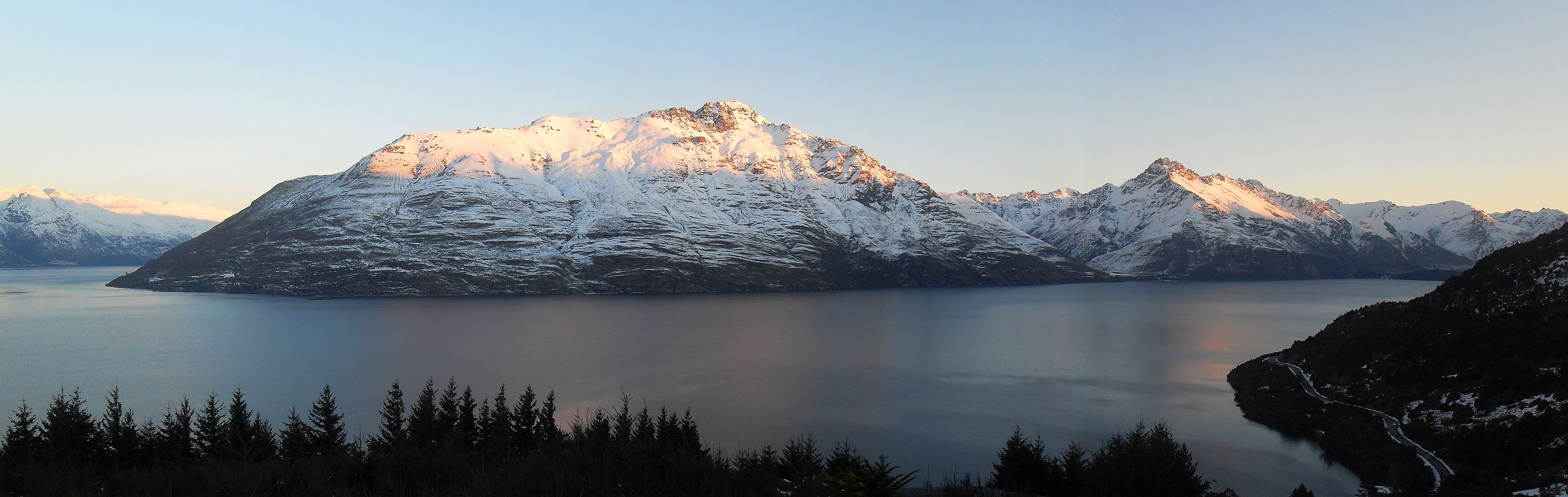 Cecil and Walter Peaks with snow late evening, taken from Fernhill.